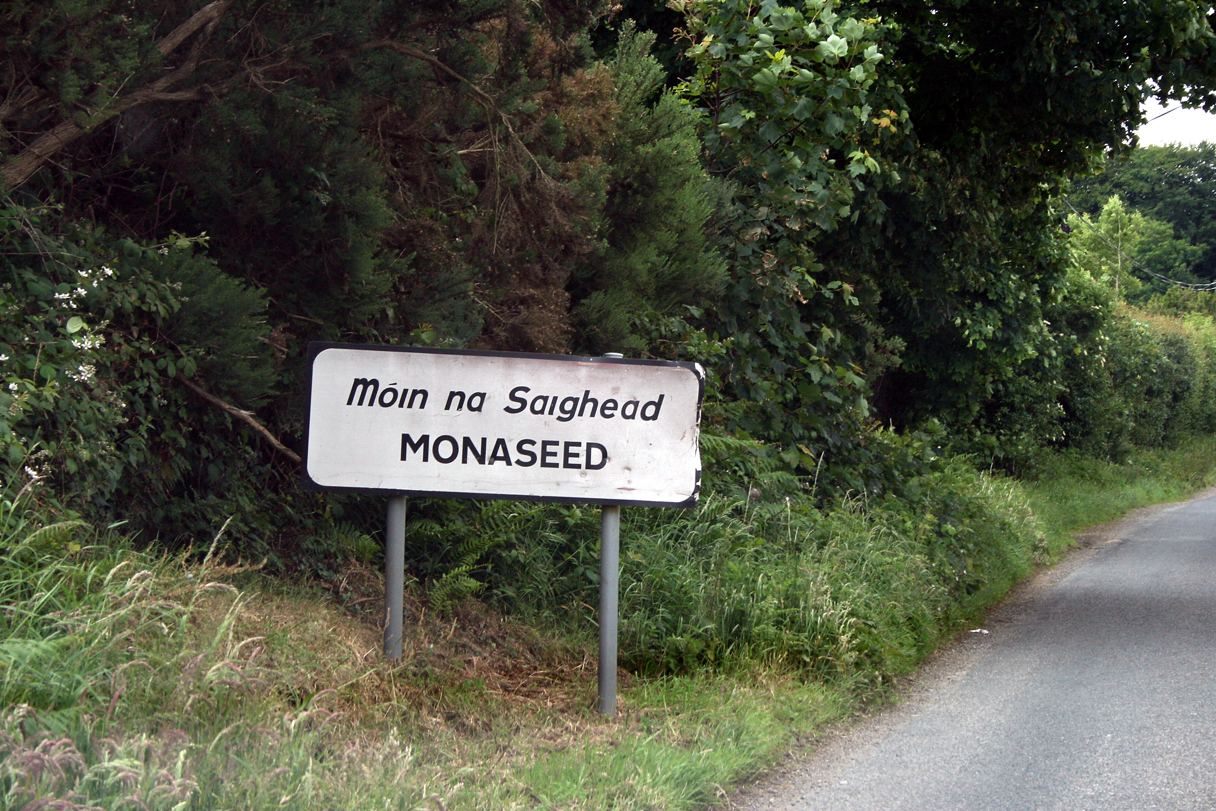 Announcing the village of Monaseed, County Wexford, Ireland. It's a long walk from this sign to the actual village!